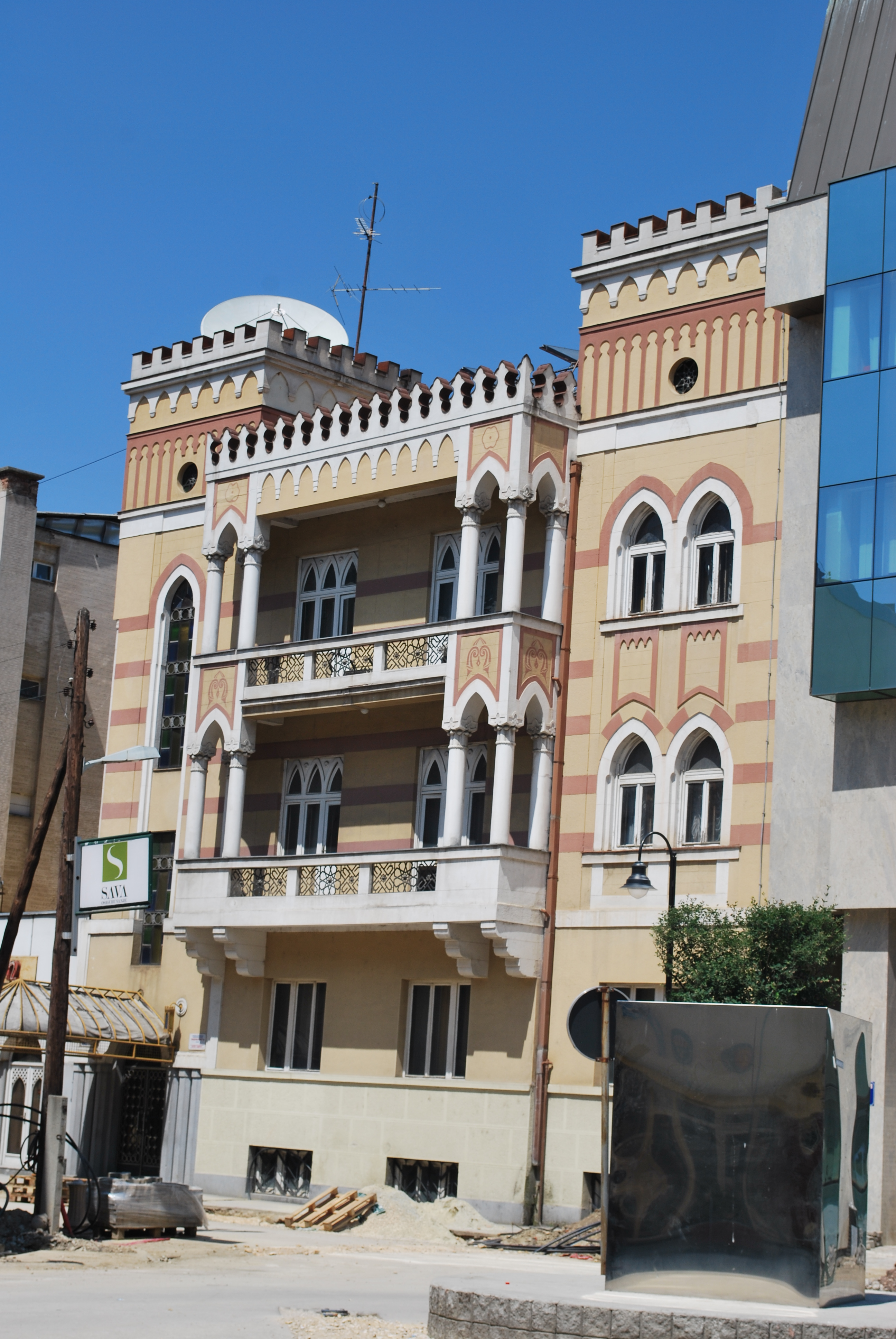 Skopje, Macedonia